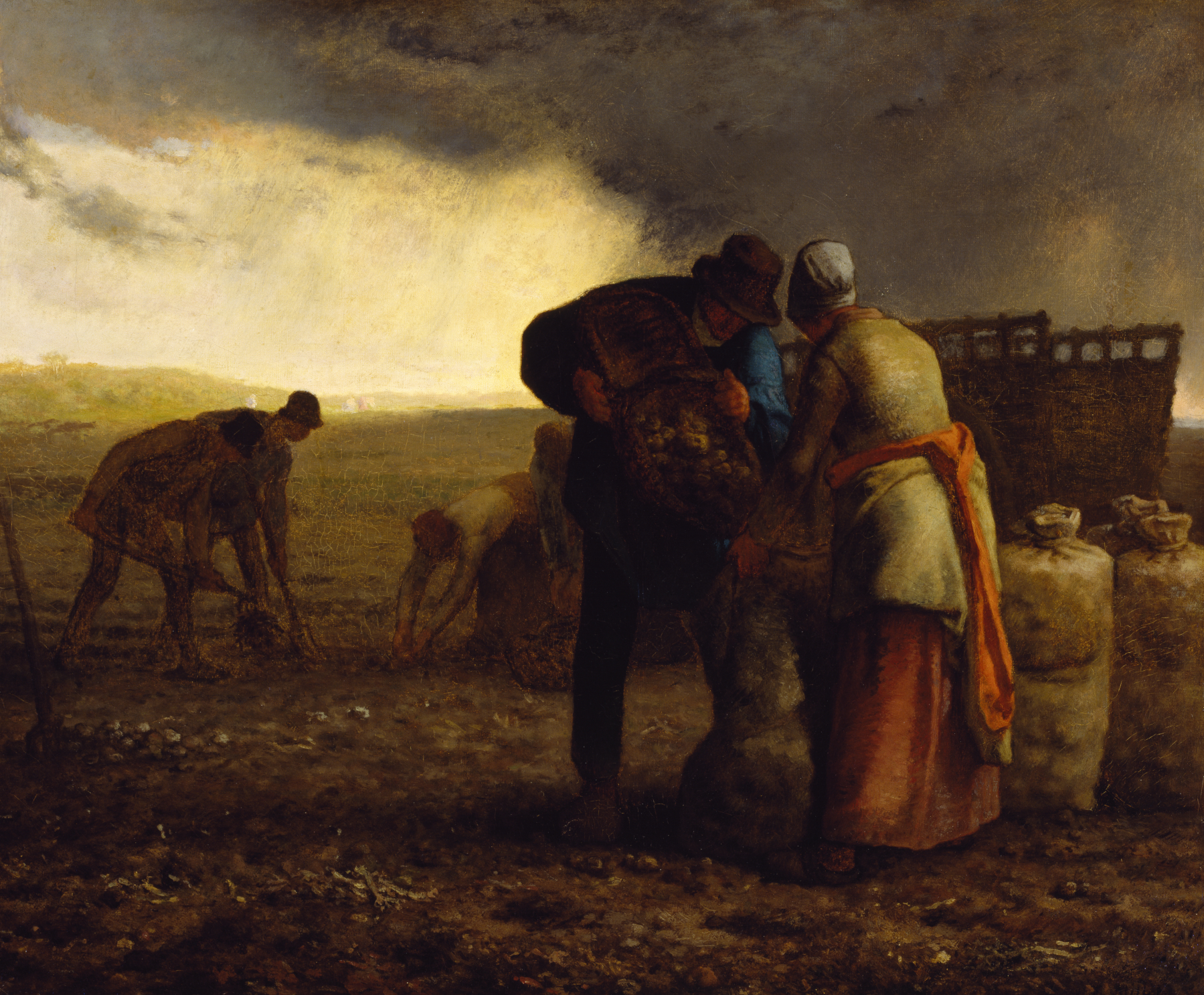 After moving from Paris to the village of Barbizon on the edge of the Fontainebleau forest in 1851, Millet devoted himself to portraying the lives of his neighbors. Some critics interpreted his paintings of working farmers as a critique of the injustices inherent in the social conditions of his time. Others have seen his work as a representation of man's harmonious union with nature.